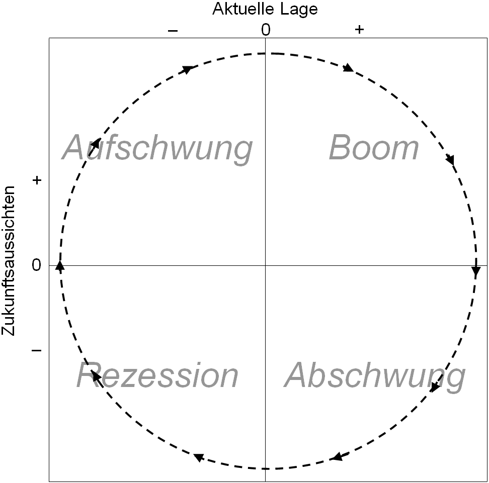 business cycle watch, German inscription